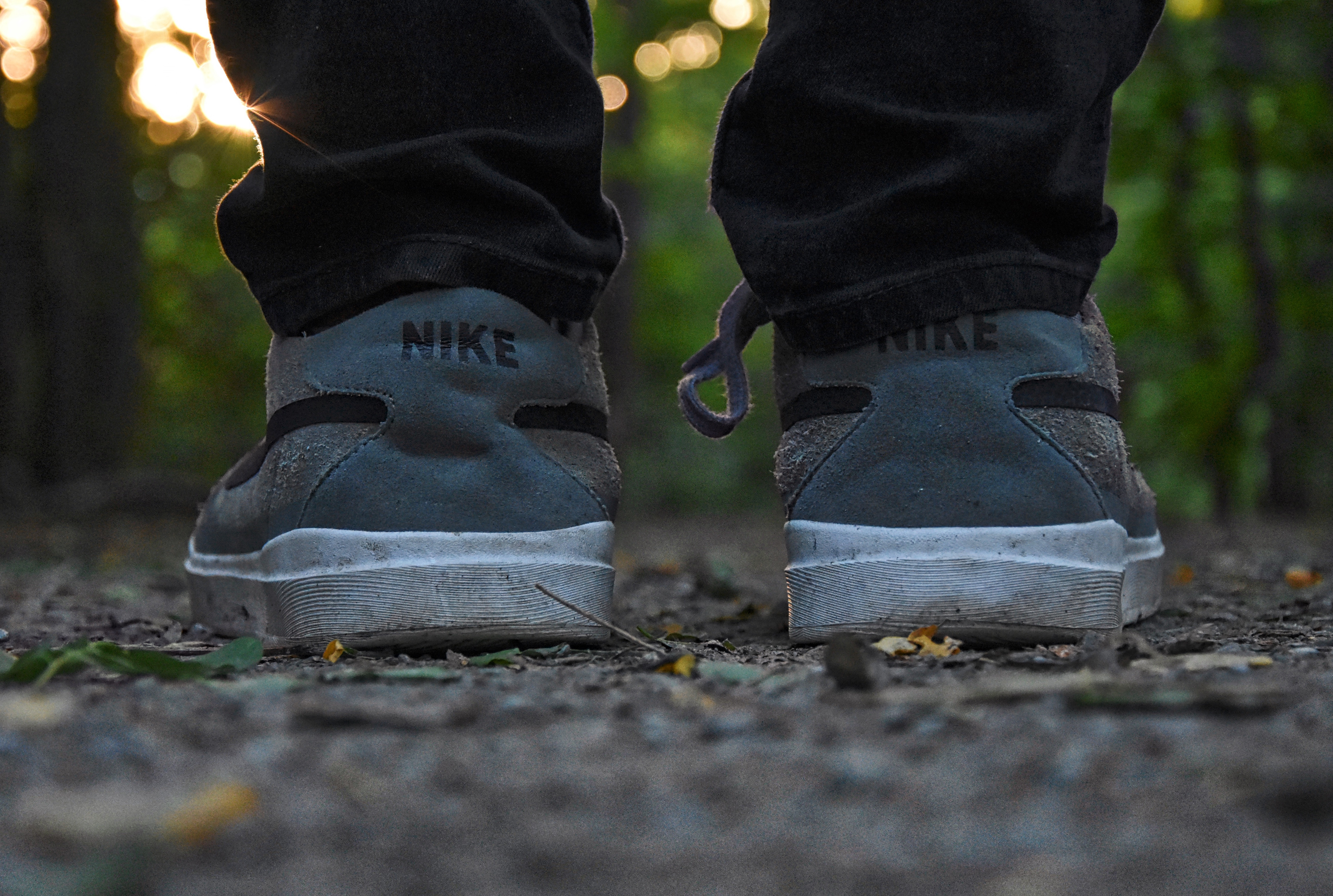 A pair of Nike Shoes (Skateboard Edition, grey colour)